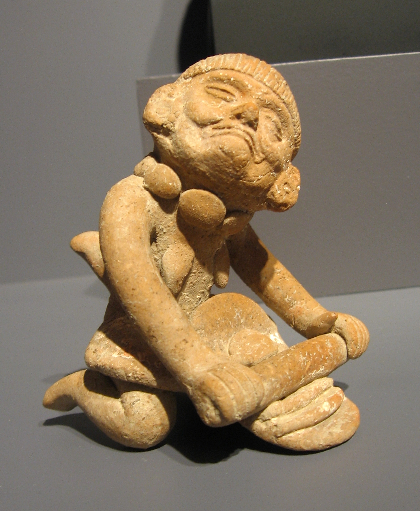 Classic Veracruz culture ceramic figurine, "Great Goddess" grinding corn. 700-900 AD. Height: 4 in (10 cm)